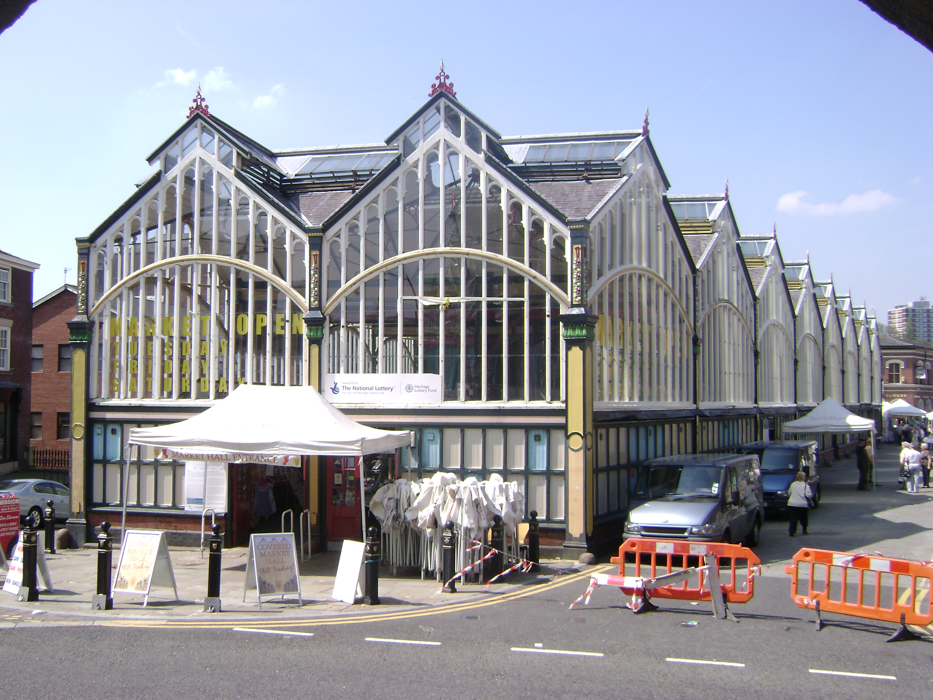 The historic market, Stockport